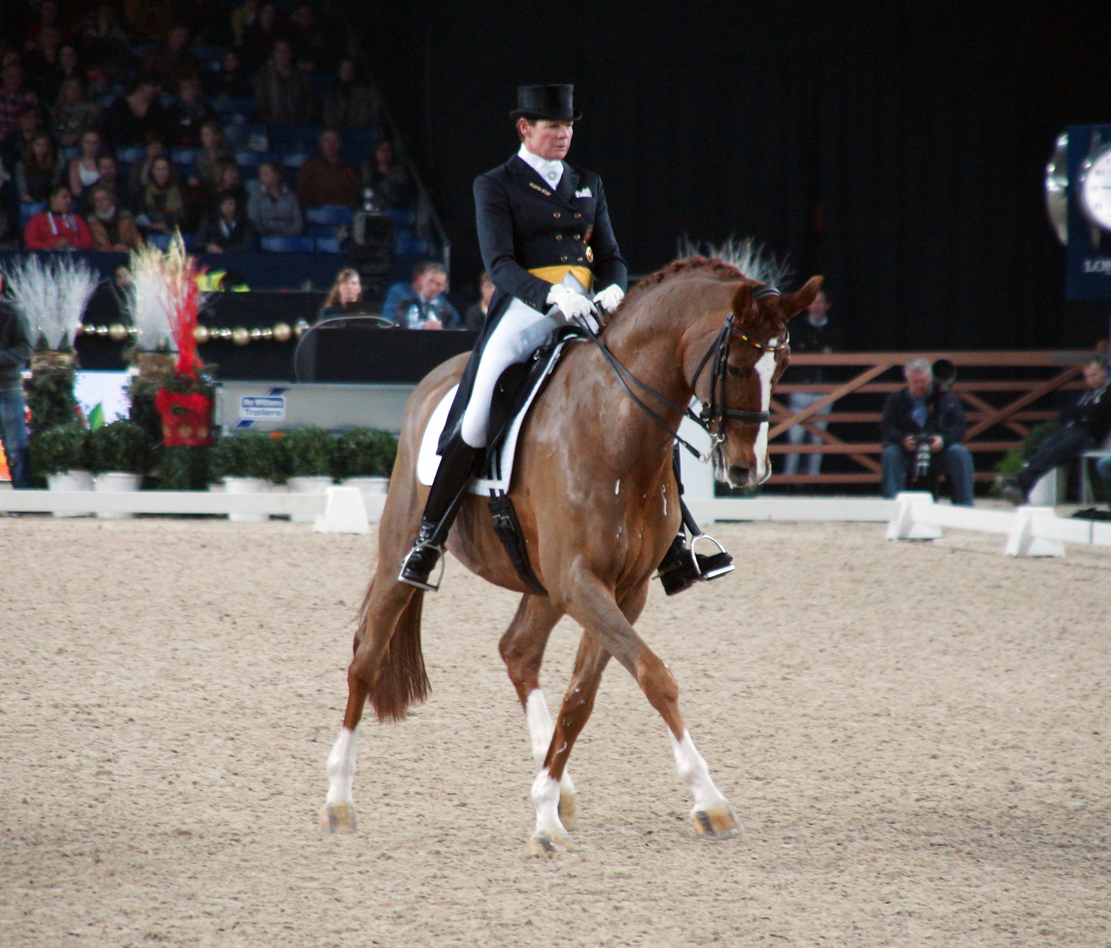 CDI 5* World Dressage Masters at 2013 Vlaanderens Kerstjumping - Jumping Mechelen: Ulla Salzgeber and Herzruf's Erbe at Grand Prix Freestyle